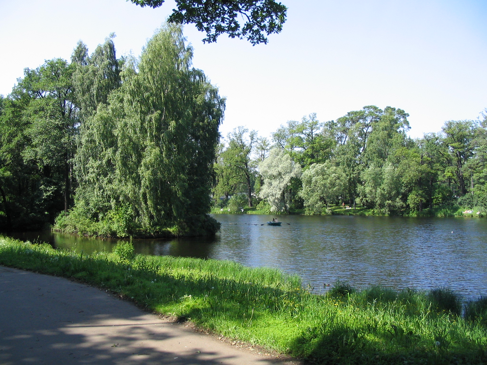 Yelagin Island in St. Petersburg, Russia